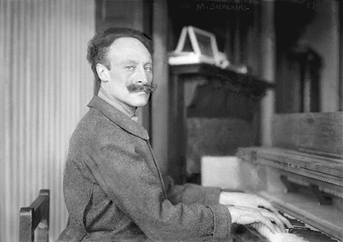 The Dutch-American virtuoso pianist Martinus Sieveking in his later years, on his oversize piano. Picture was repaired by the uploader.